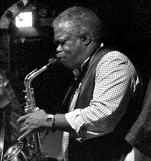 description: Joe McPhee at the Empty Bottle in Chicago in 2004. Original photo by Seth Tisue. photographer: Seth Tisue photographer_location: Boston, MA, USA photographer_url: Seth Tisue flickr_url: [1] taken:November 4, 2004